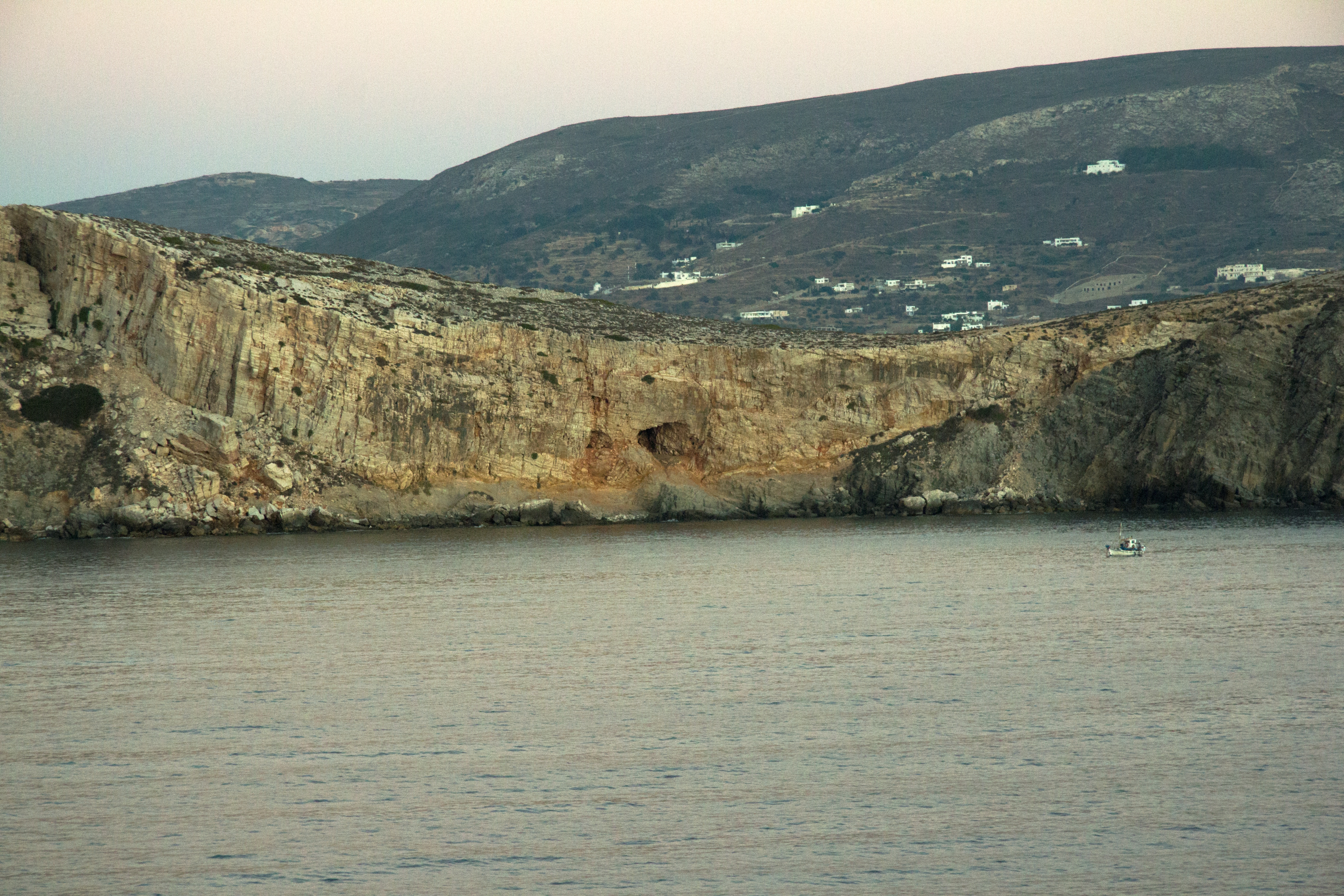 Cave of Archilochos on the Paros island, near Sacred cape in front of the entrance to the harbor of Parikia. (The picture in early evening from ship.)